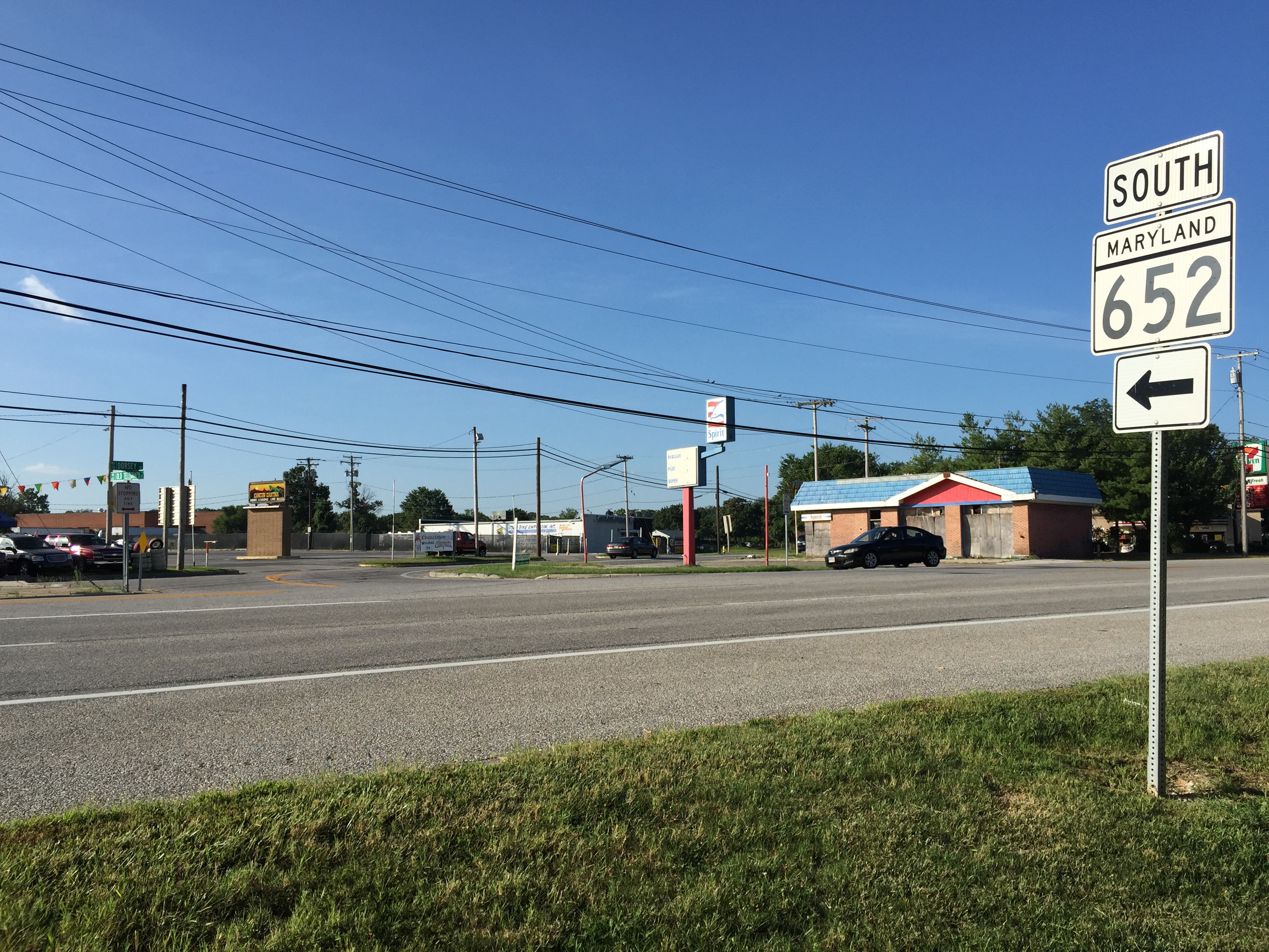 View south along Maryland State Route 652 (Old Telegraph Road) at Maryland State Route 176 (Dorsey Road) in Severn, Anne Arundel County, Maryland